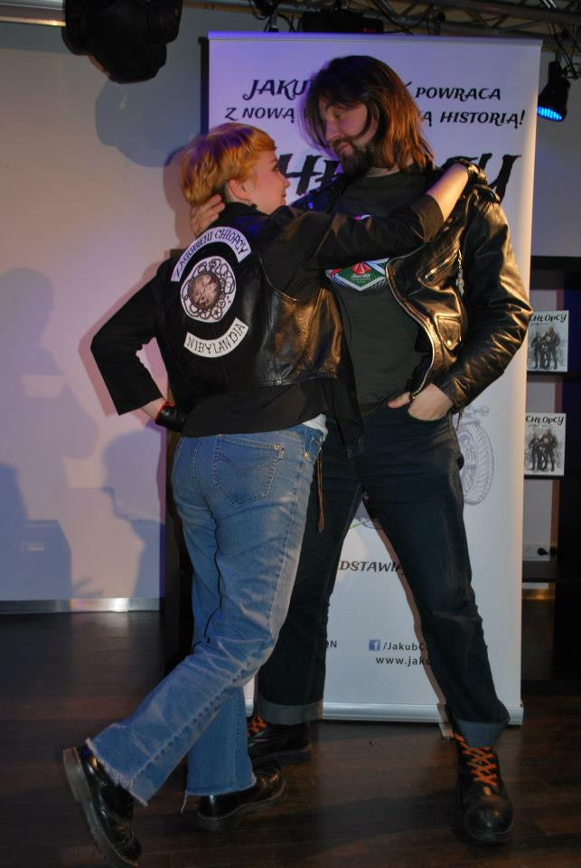 Jakub Ćwiek with his fan, Warsaw, Rock&Read Festival 2012